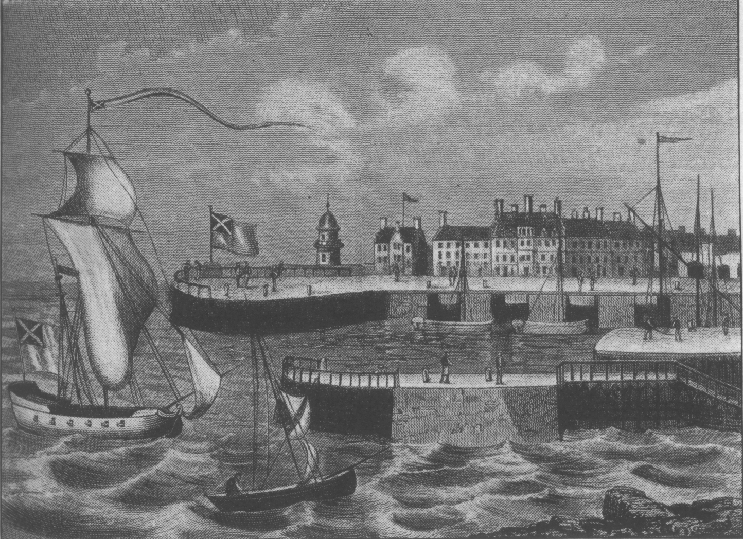 From a painting held by Trinity House, Leith. Note the apertures in the harbour wall which allowed timber logs to be floated directly into the area known as Timber Bush.